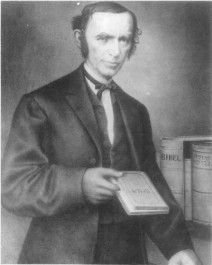 picture of Rabbi David Einhorn